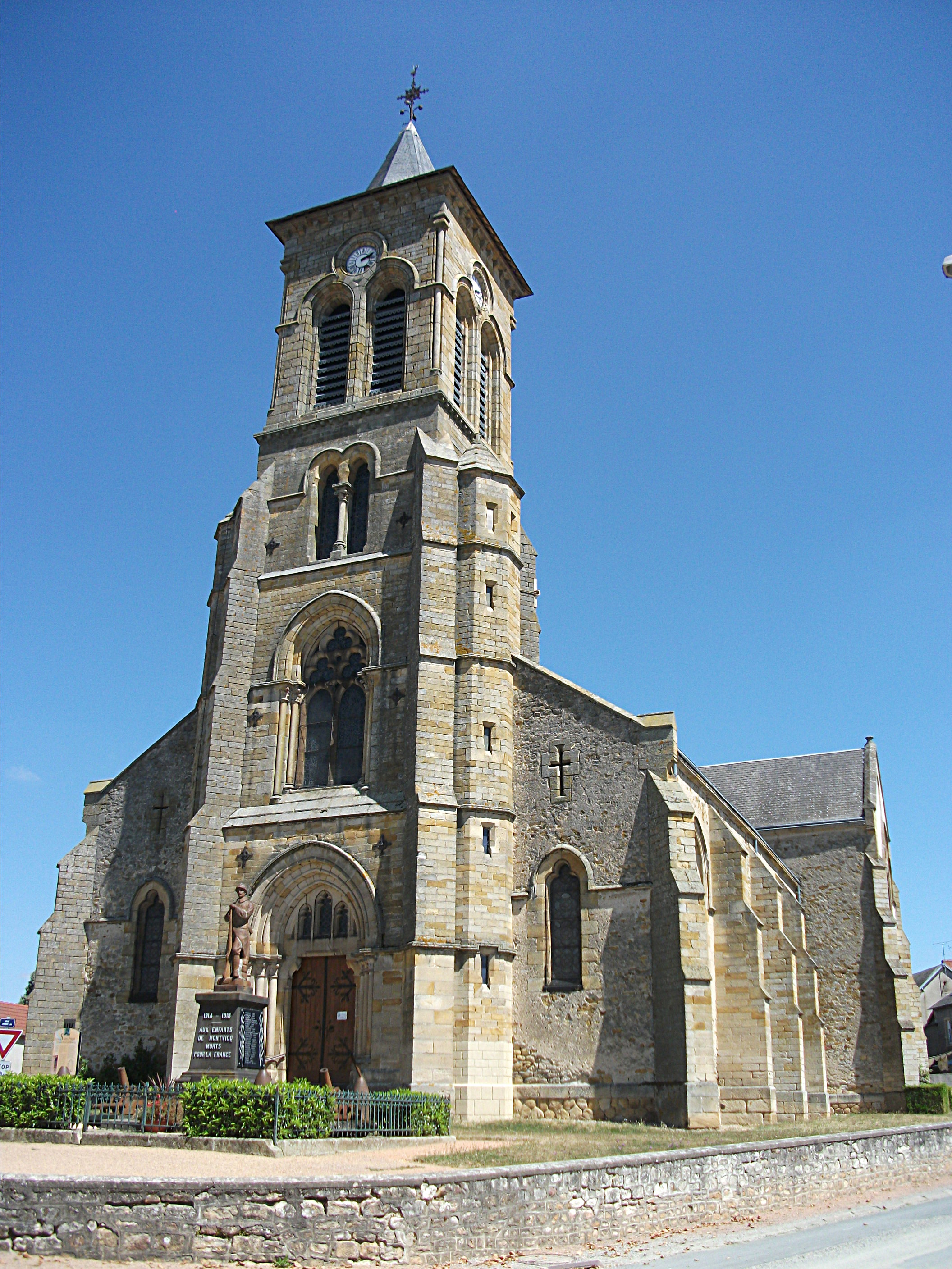 Church of Montvicq, Allier, Auvergne-Rhône-Alpes, France [16722]